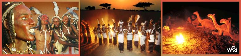 Triptychon 'Geerewol Dances'. Geerewol celebrations, male dancers of the Wodaabe tribe, Sahel, Niger.